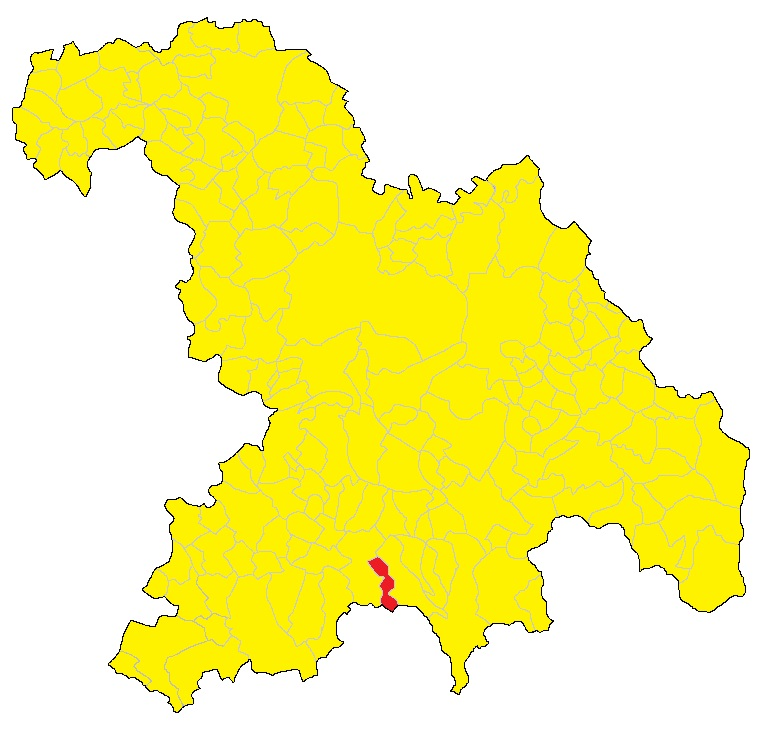 Map of Belforte Monferrato (AL).